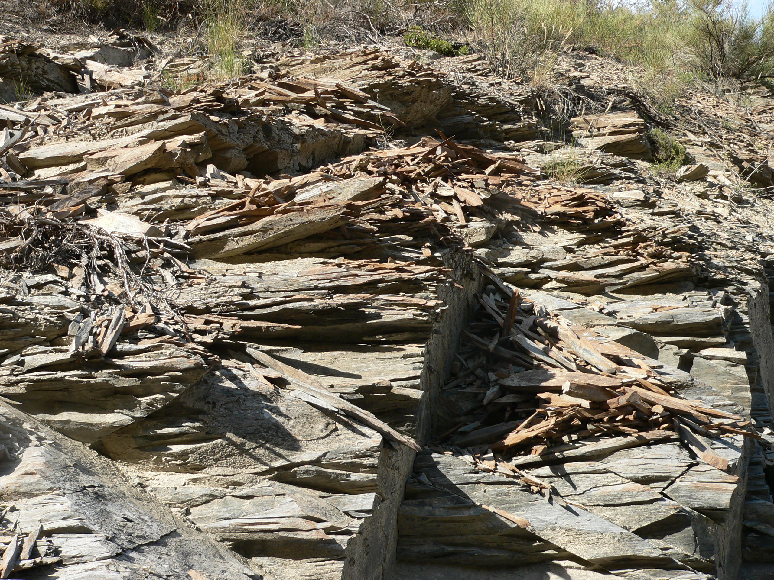 Erosion as sticks, called Frites. Col des Garcinets, french Alpes